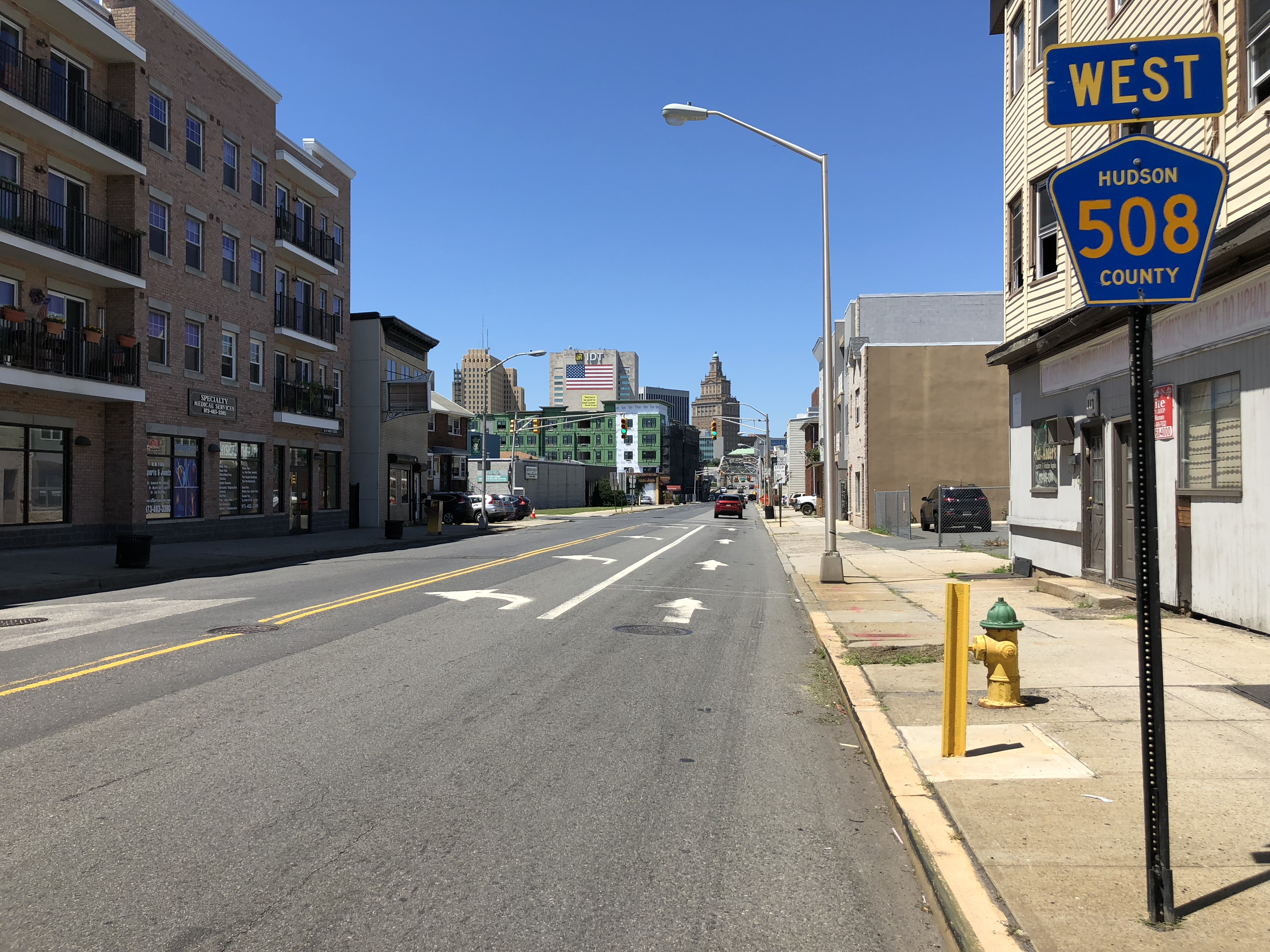 View west along Hudson County Route 508 (Harrison Avenue) just west of Interstate 280 (Essex Freeway) in Harrison, Hudson County, New Jersey